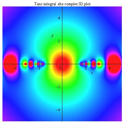 Tanc abs complex 3D plot